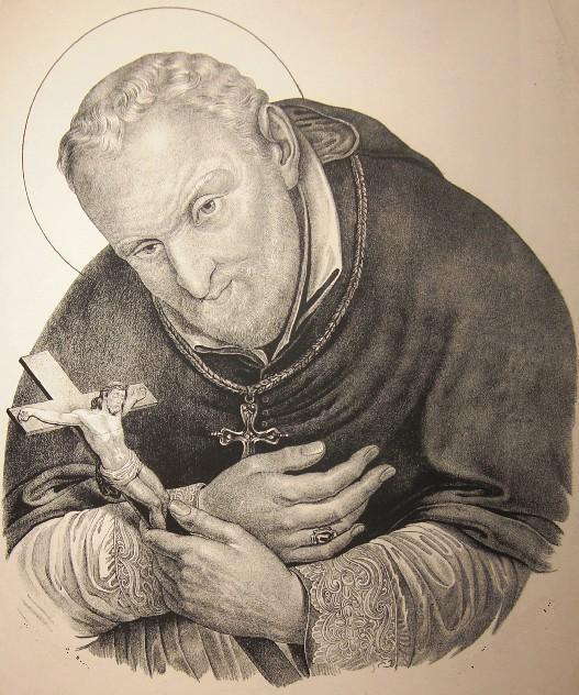 St. Alphonsus Liguori, engraving by an unknown artist, Naples, 18th century.